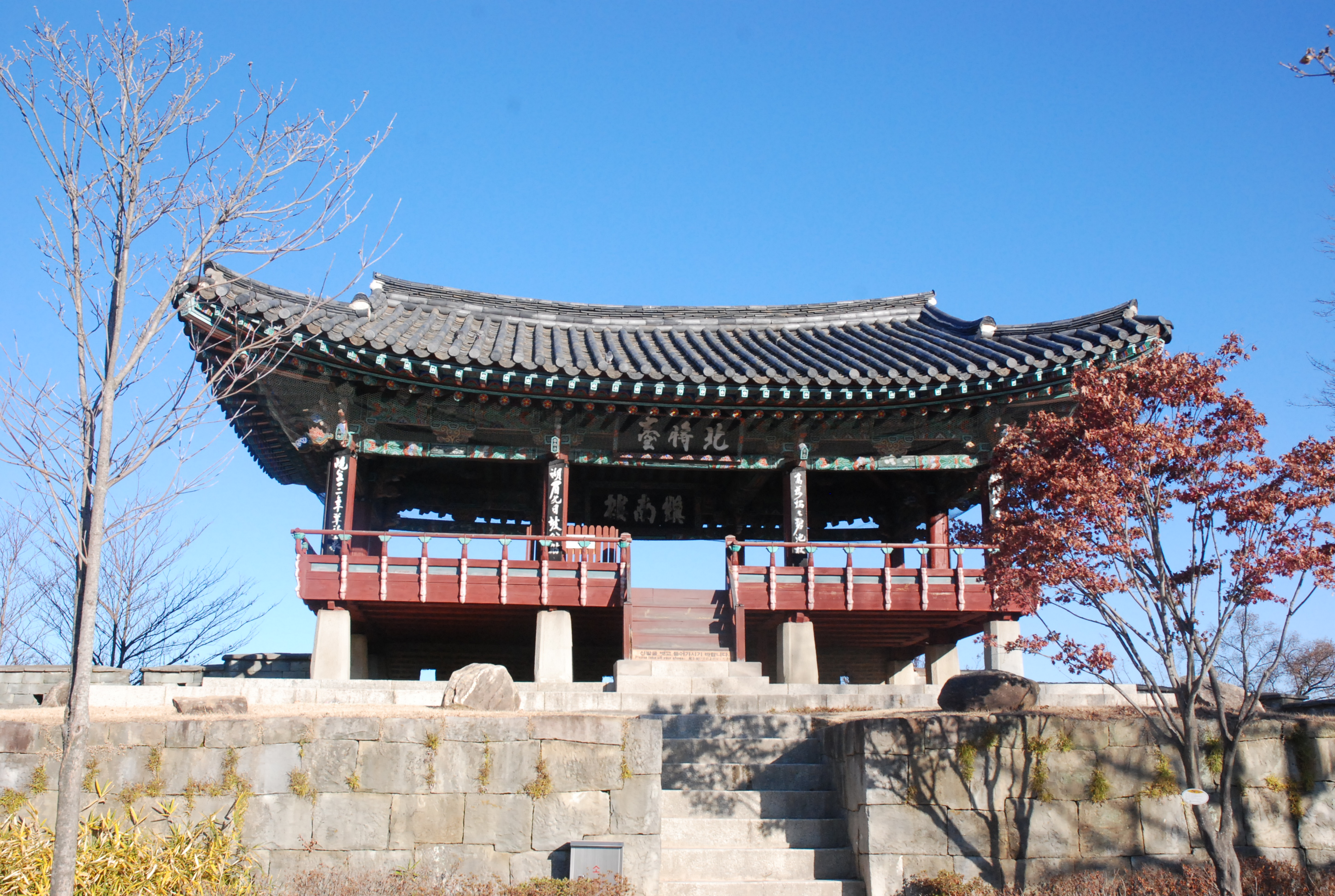 Jinju castle north headquarters